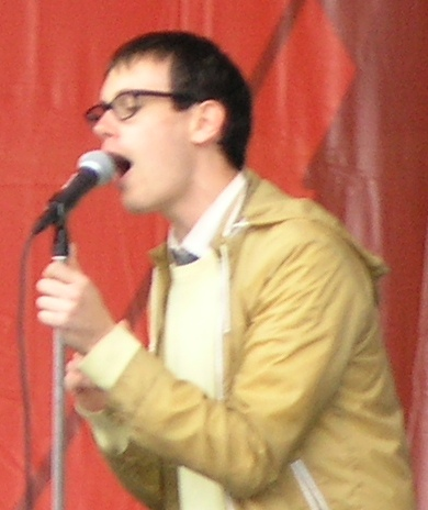 Taken during MyCokeFest at Centennial Olympic Park in Atlanta